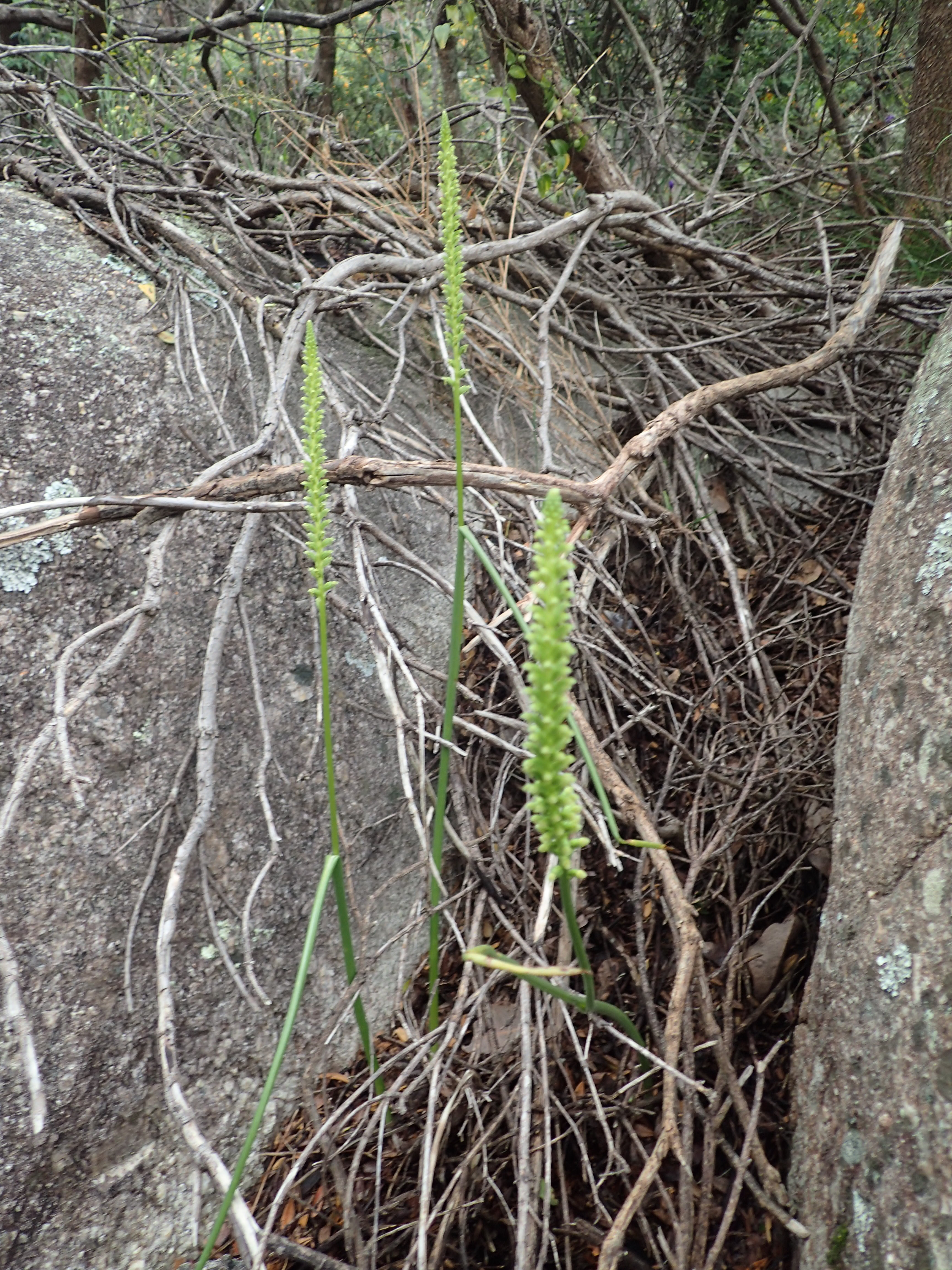 Microtis media growing on Mount Melville in Albany, W.A.